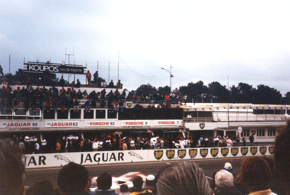 Crowded Pit lane during 1987 24 Hours of Le Mans